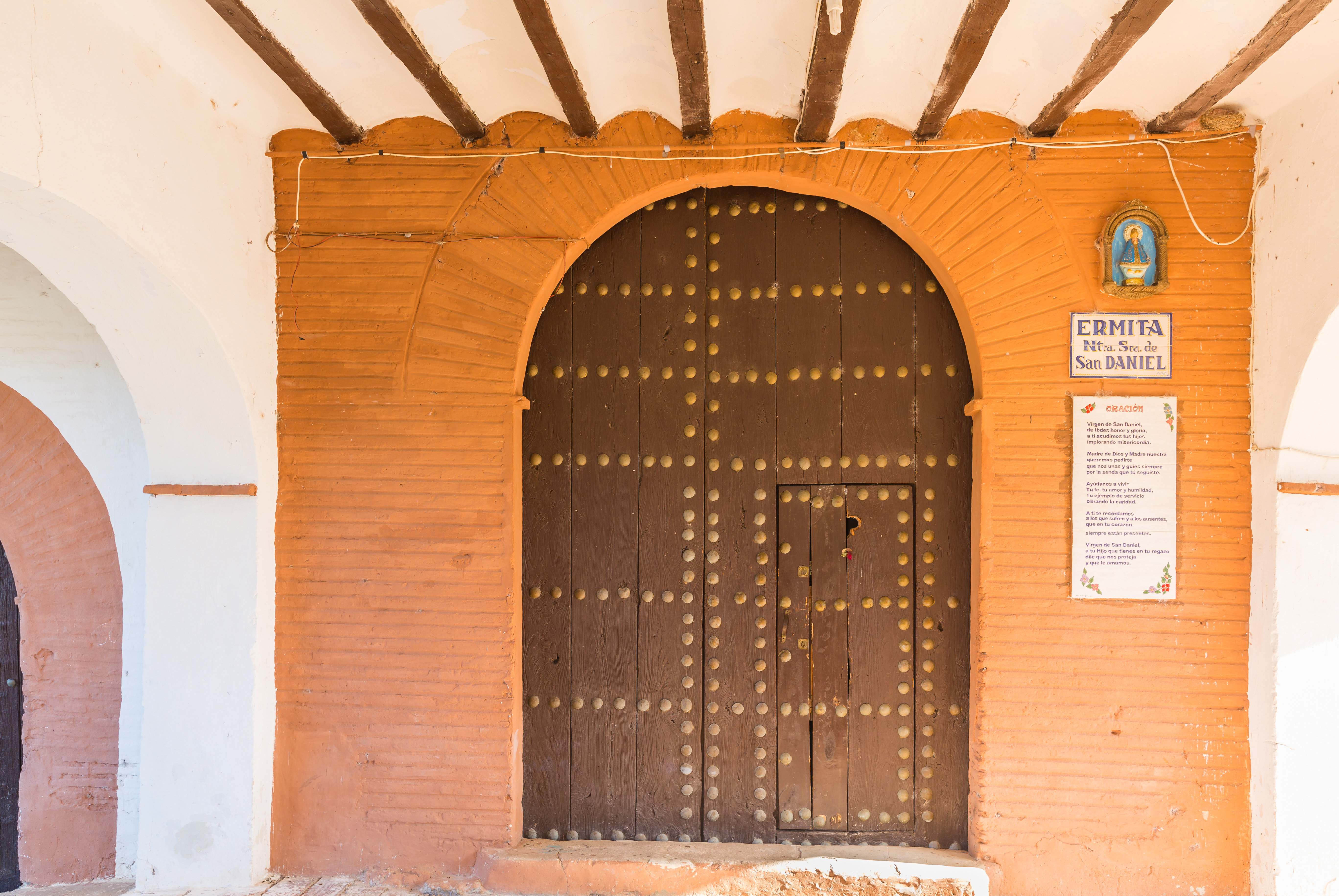 Hermitage of St Daniel, Ibdes, Zaragoza, Spain